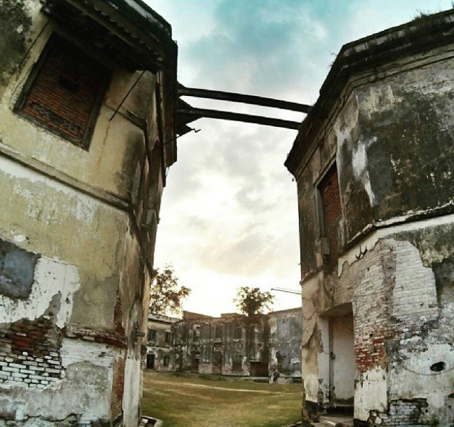 Benteng van den bosch